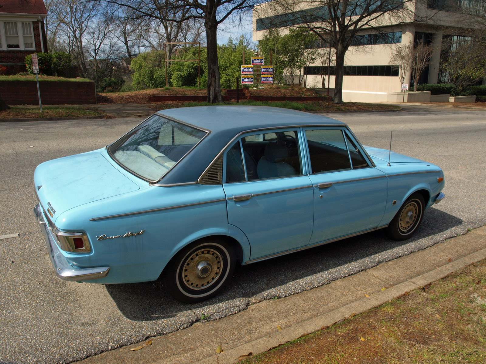 A Toyota Corona Mark II on Union Street in Montgomery, Alabama